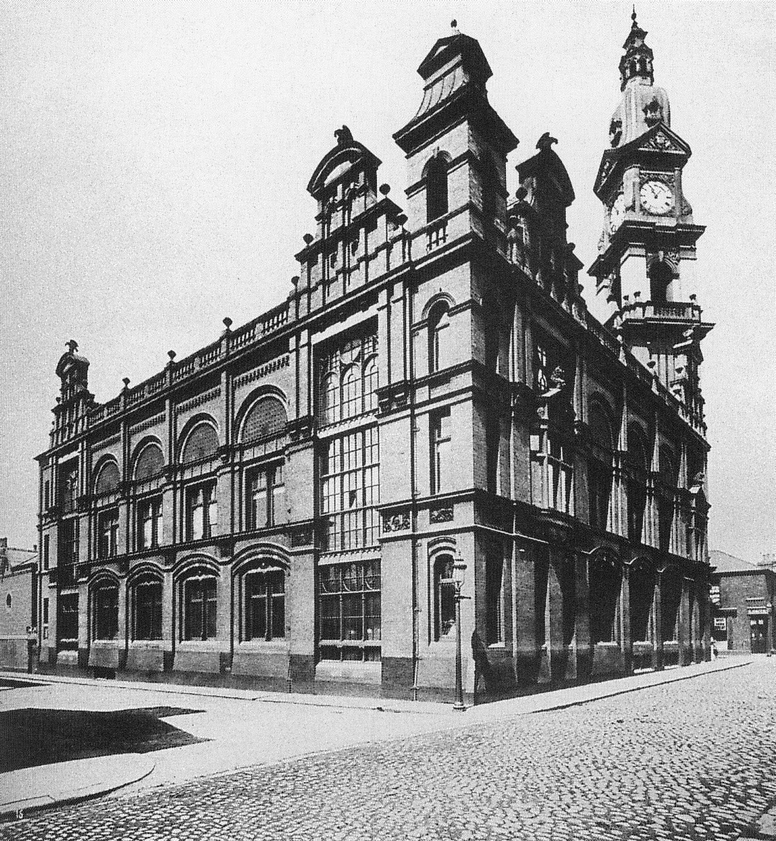 The building known as Beechams Clock Tower, originally part of Beechams Factory and now a part of the modern St. Helens College Scanned from Public Archives by the team at St Helens .Koncorde (talk) 15:53, 1 July 2010 (UTC)